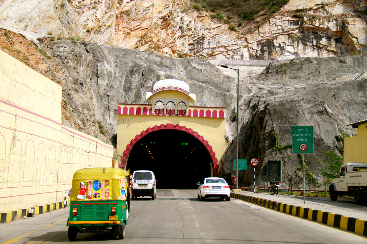 Road network in Rajasthan state of India Rural roads, Urban Streets, State, National highways